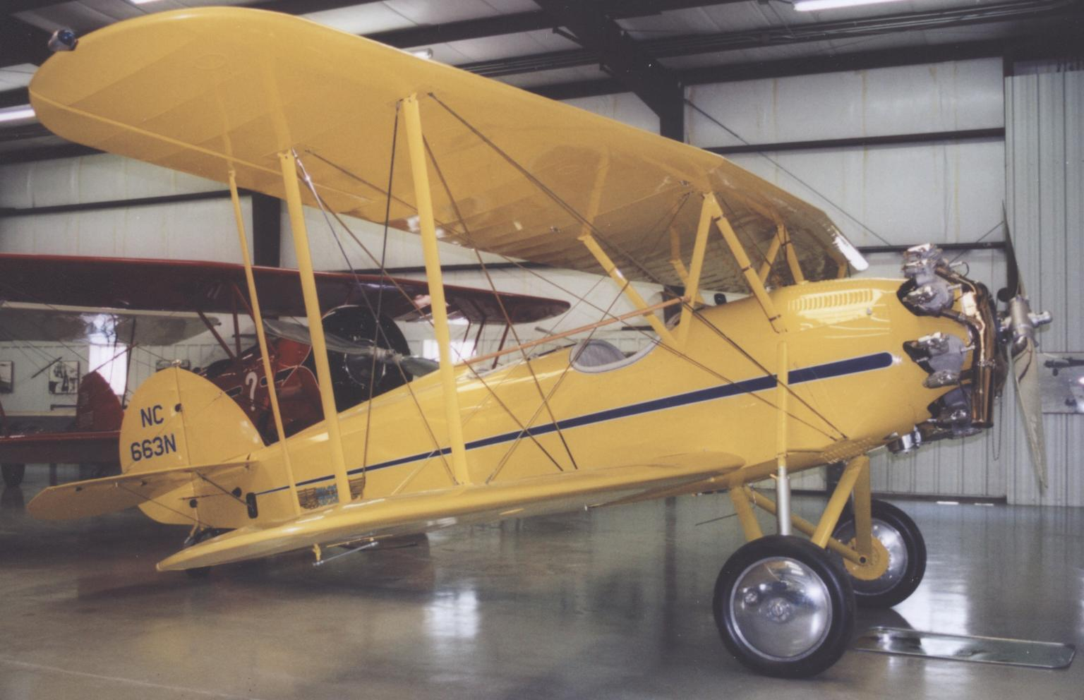 WACO ASO biplane NC663N of 1929 at Historic Aircraft Restoration Museum, Dauster Field near St Louis